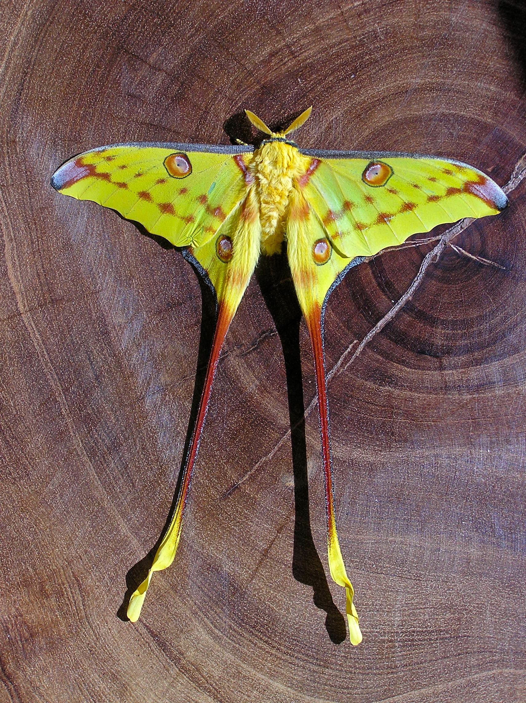 Feon'ny Ala Hotel, Perinet Reserve, MADAGASCAR